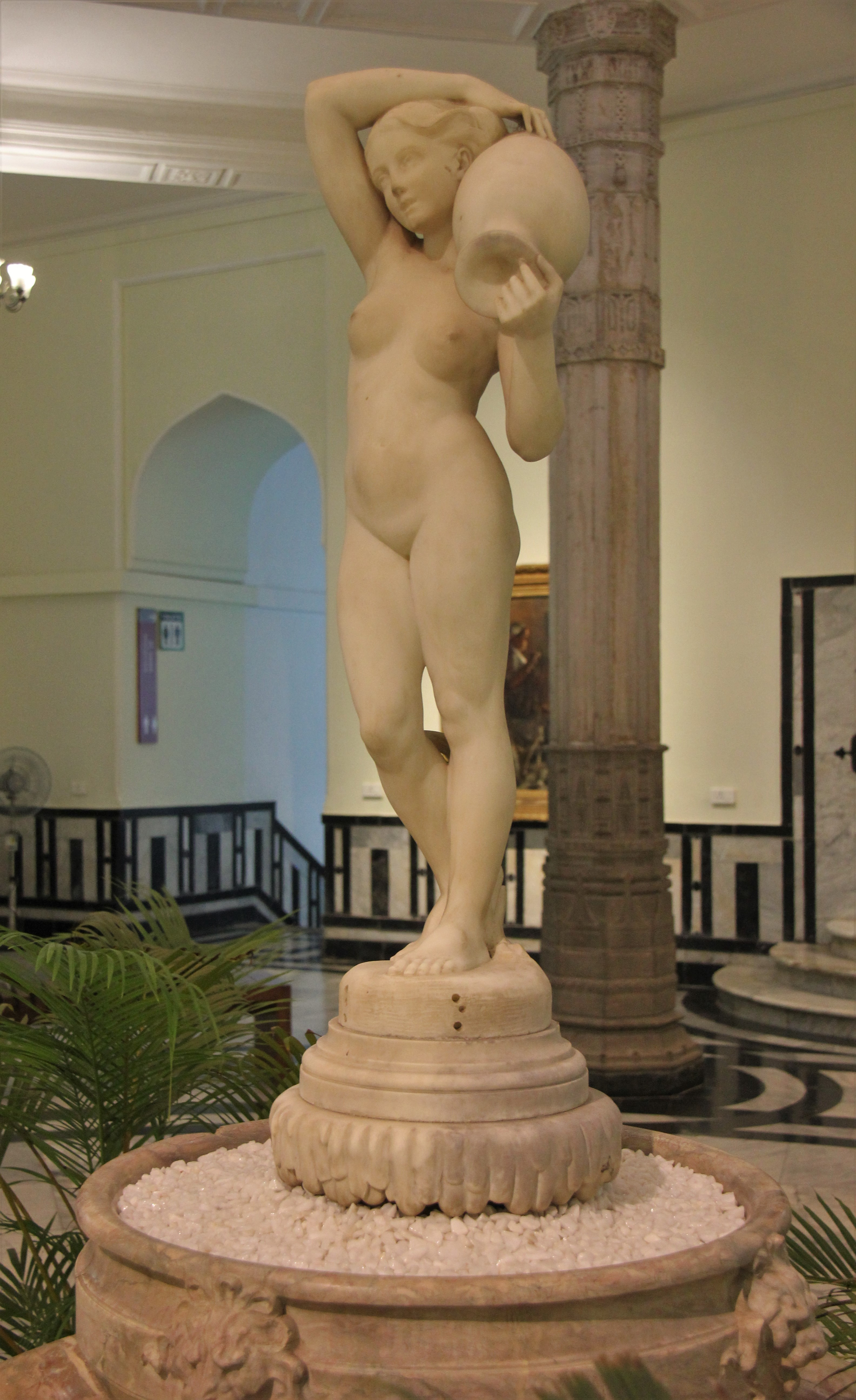 The marble statue is based on the painting The Source (Ingres) by Jean-Auguste-Dominique Ingres. This painting is on display in Musee du Louvre. This exhibit was specially commissioned by Dorabji Tata and presented to the "Prince of Wales Museum, Mumbai" (Chhatrapati Shivaji Maharaj Vastu Sangrahalaya) where it is on display.